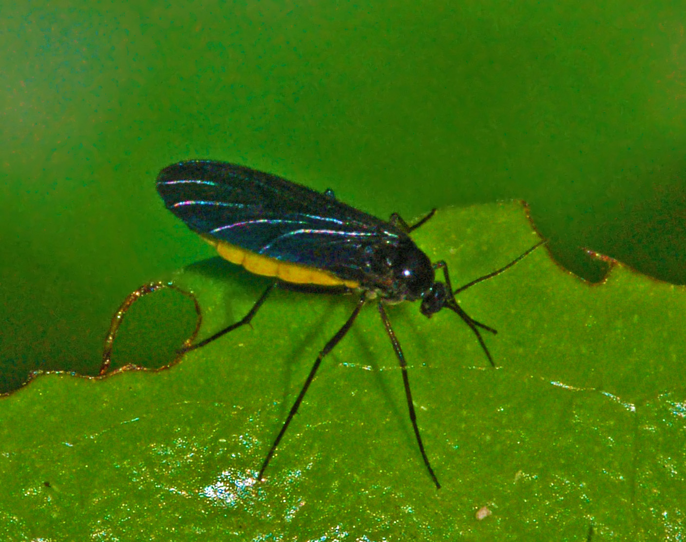 Sciara species. Genova, Italy